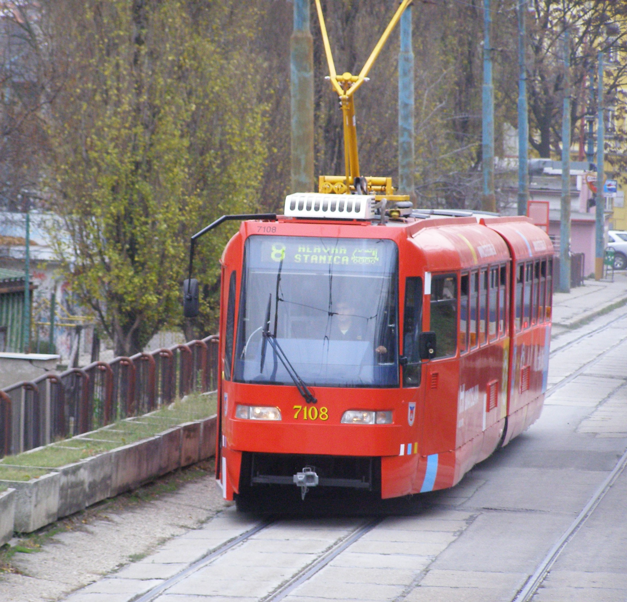 Tram ČKD K2 modernized, Bratislava